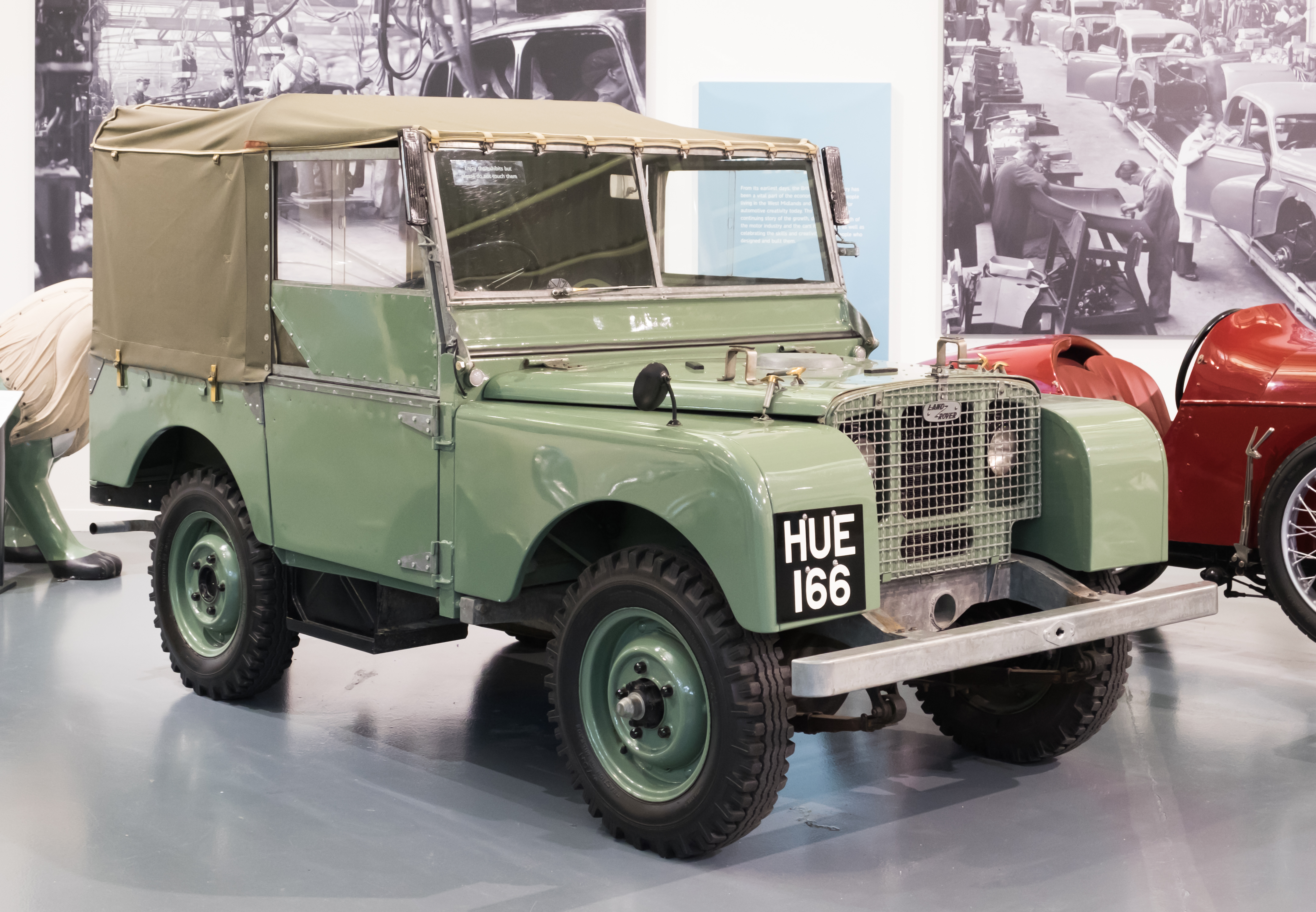 A 1948 Land Rover Series I. This car, with registration number HUE 166, was the first pre-production Land Rover. It is now kept at the British Motor Museum, Gaydon, UK.